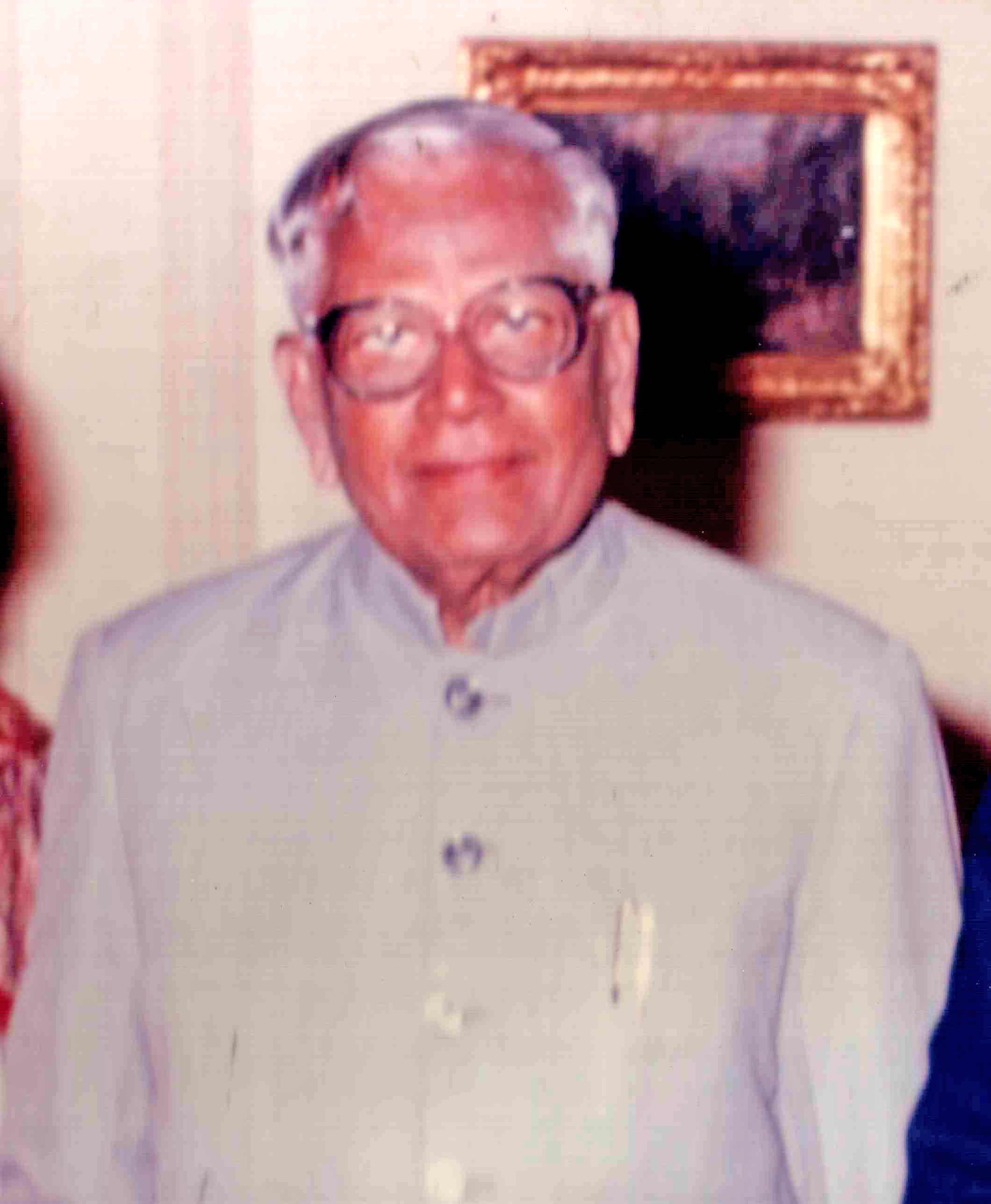 Jaisingh Rathore